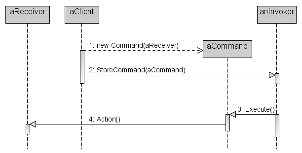 The UML diagram describing relations between objects of the Command design pattern.